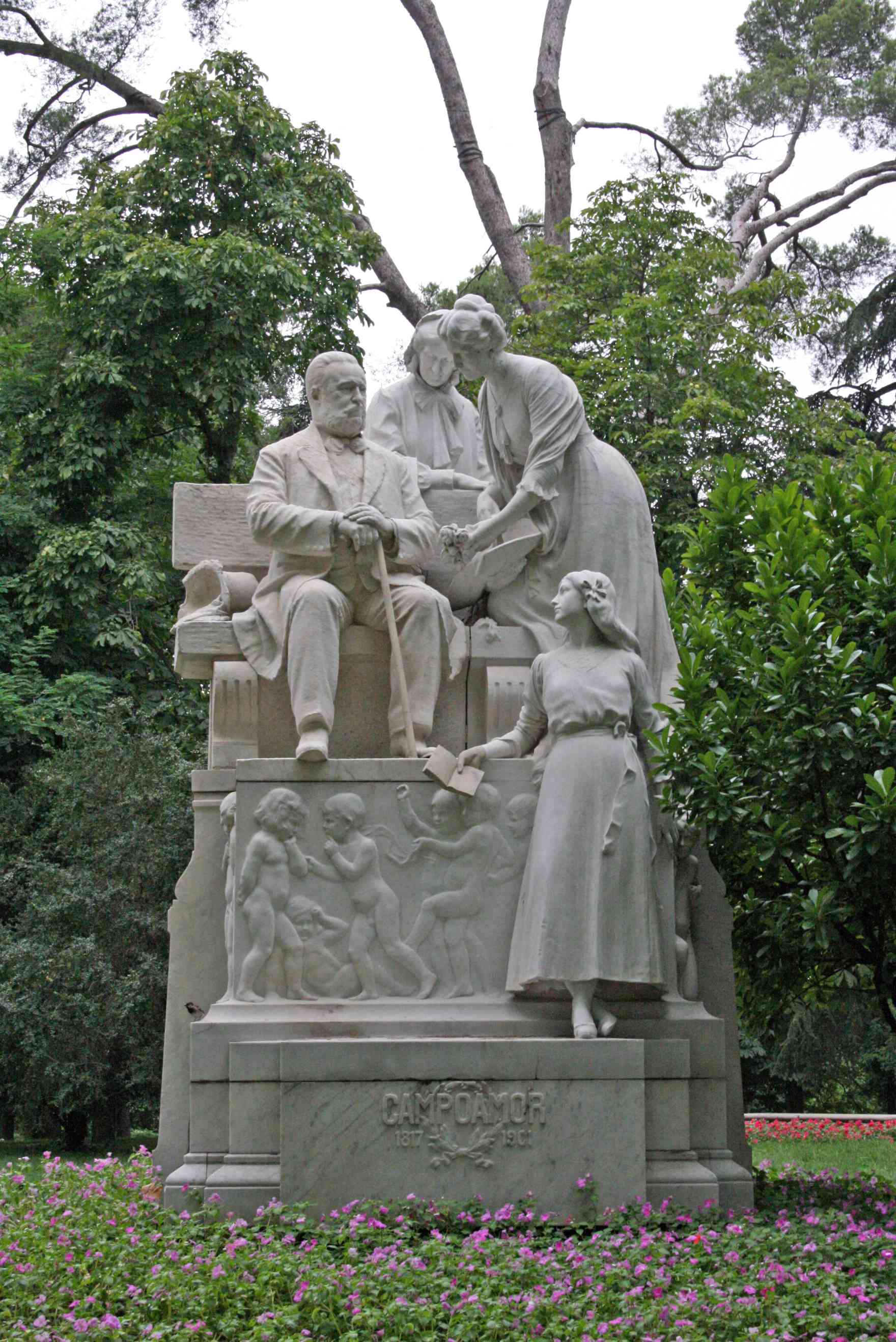 Statue of Ramon de Campoamor in Retiro Park in Madrid, Spain.